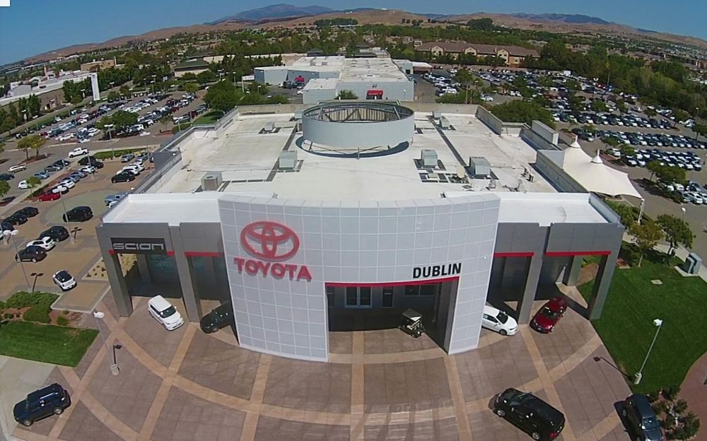 Picture of Toyota Dealership